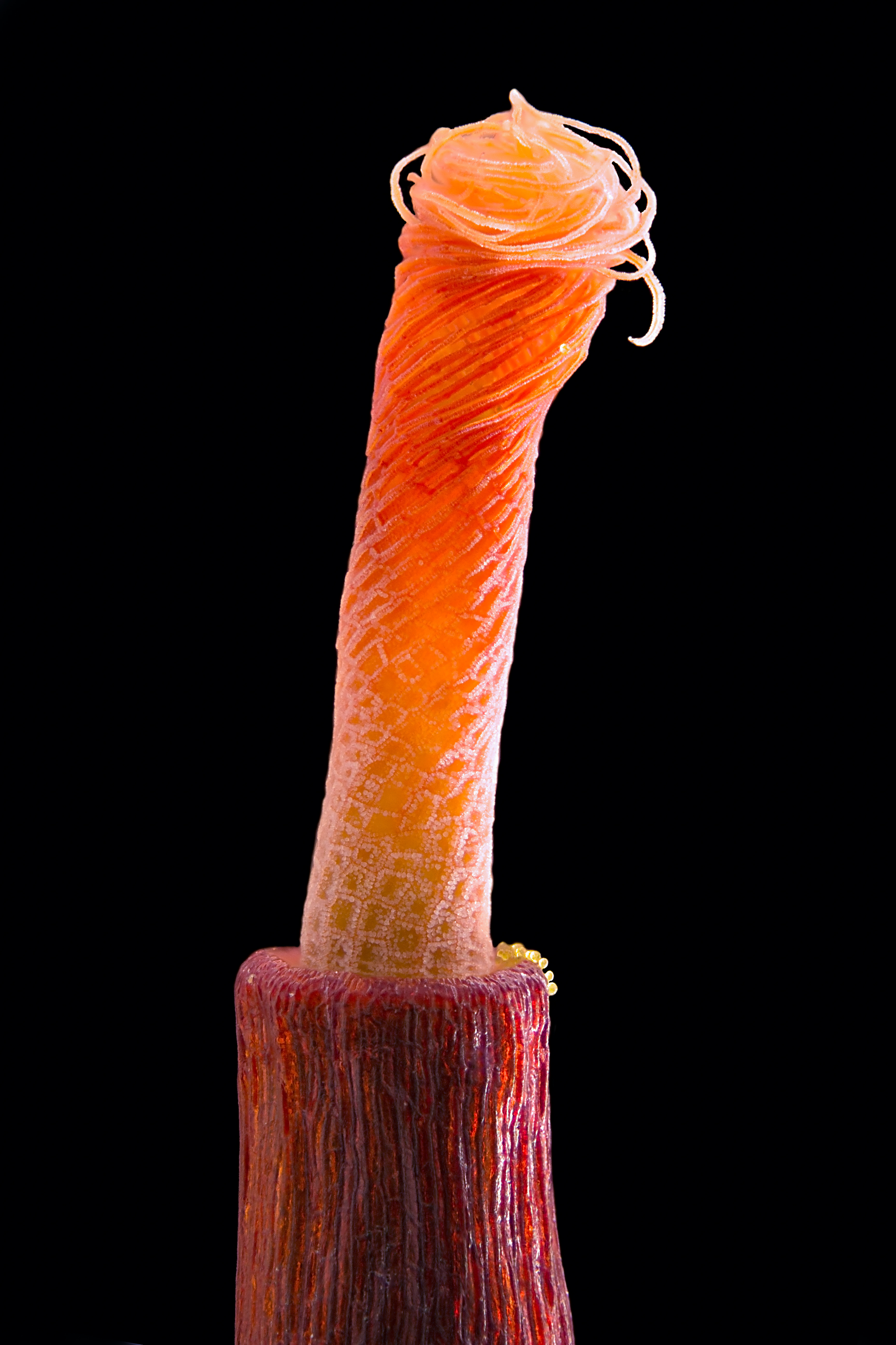 Peristome of sporophyte of Tortula subulata